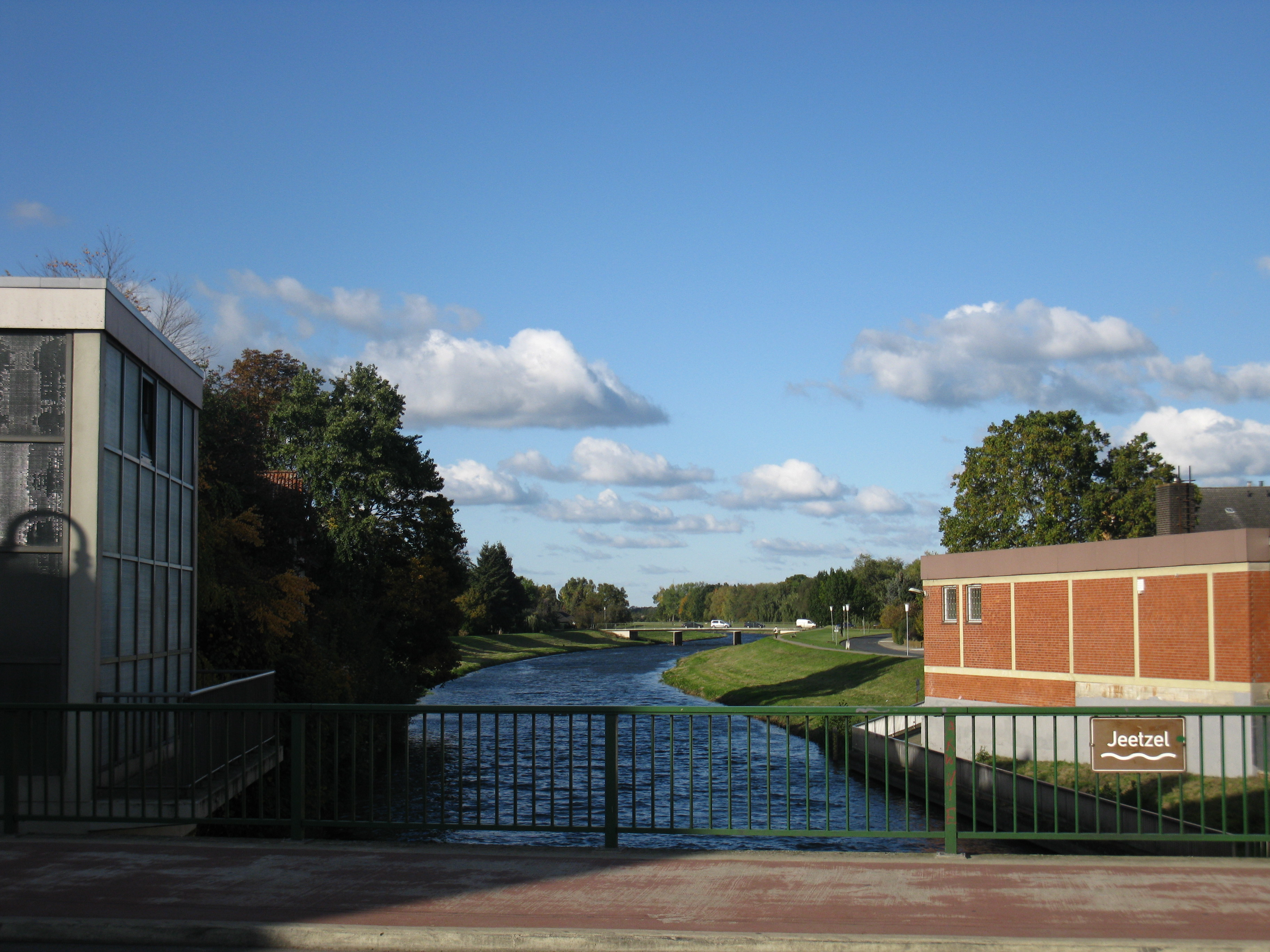 River Jeetzel in Luechow, Germany